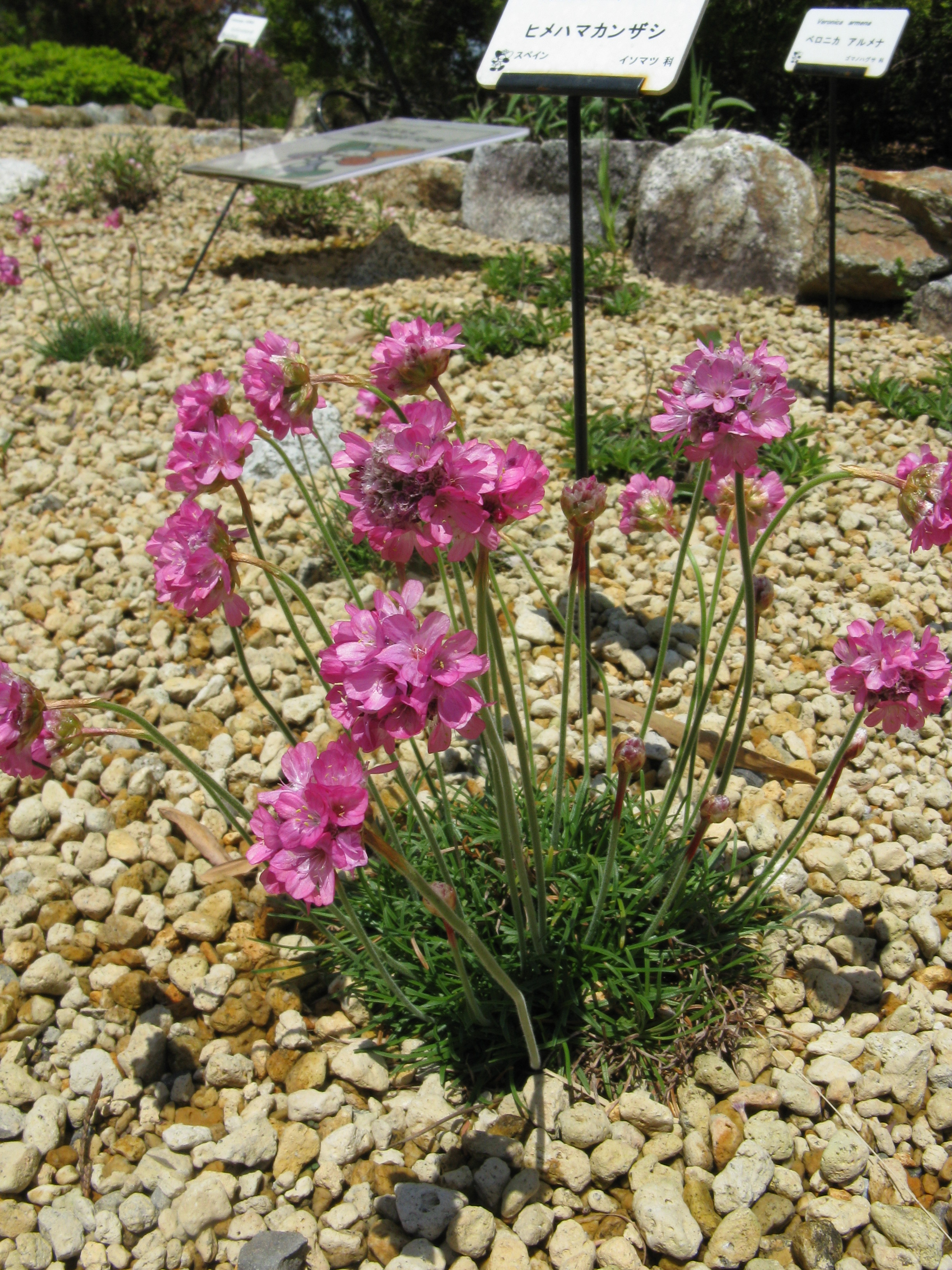 Armeria caespitosa Place:Osaka Prefectural Flower Garden,Osaka,Japan